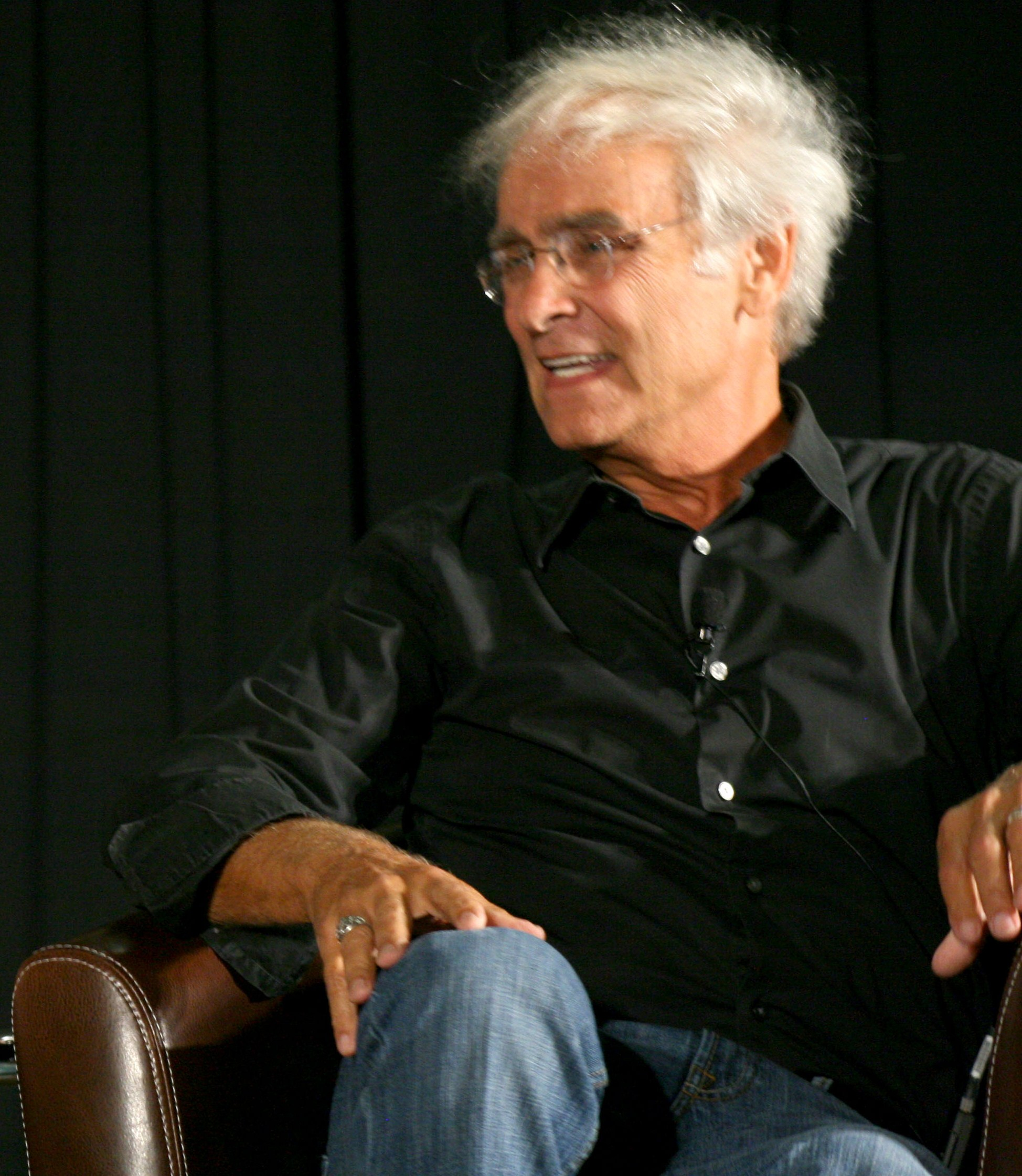 Talk radio hosts Randi Rhodes and Mike Malloy at a "We the People" event hosted by KPTK